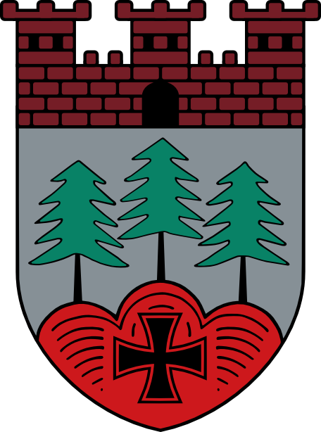 Coat of arms of Tannenberg (Ostpreußen).